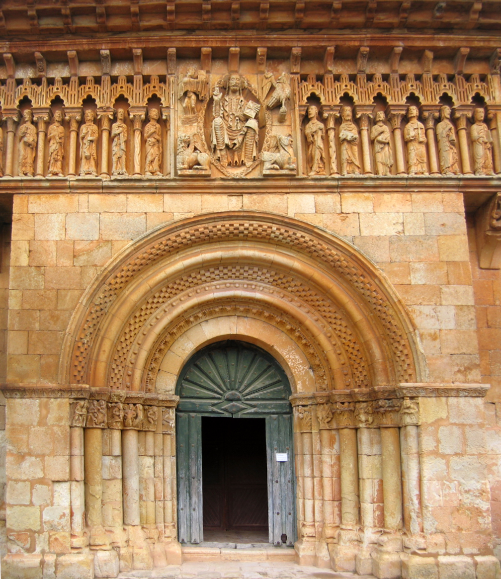 Romanesque portal of the church of San Juan Bautista in Moarves de Ojeda (Palencia, Castile and León).